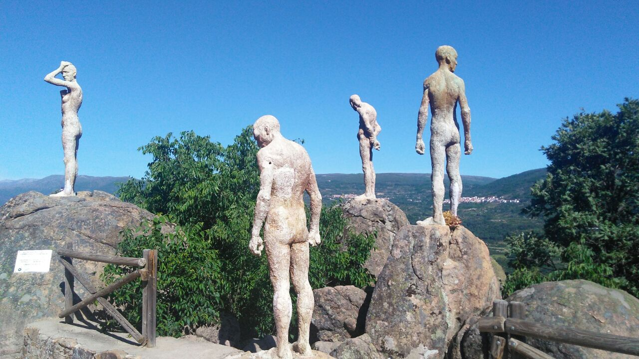 Work by sculptor Francisco Cedenilla Carrasco inaugurated in 2009 as a tribute to the victims of the Spanish Civil War. It is located in the Jerte Valley, near the village of El Torno ( Cáceres, Extremadura).